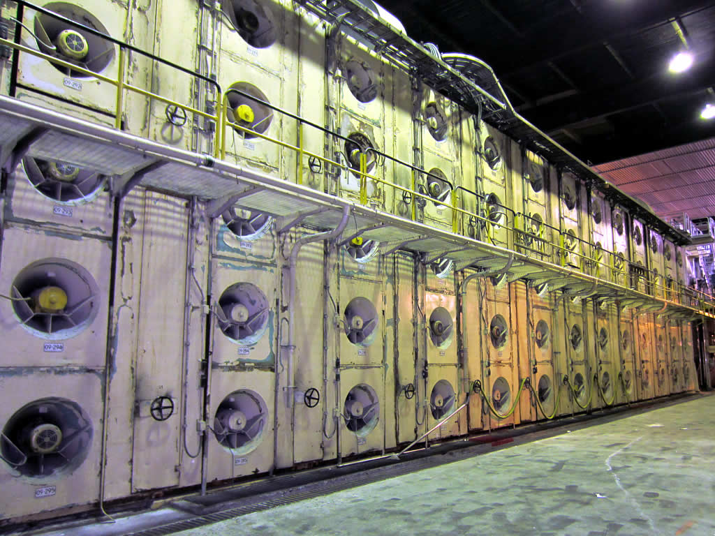 a line of pulp dryers at the Harmac Pacific Pulp Mill, Nanaimo, BC